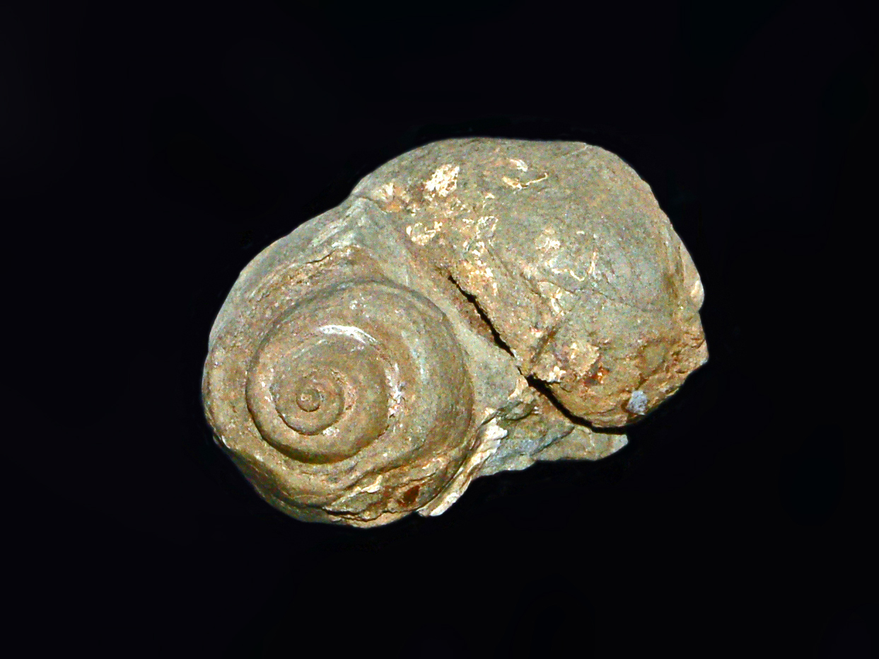 Shell of Ampullina sp. - Oligocene from Savona (Italy)